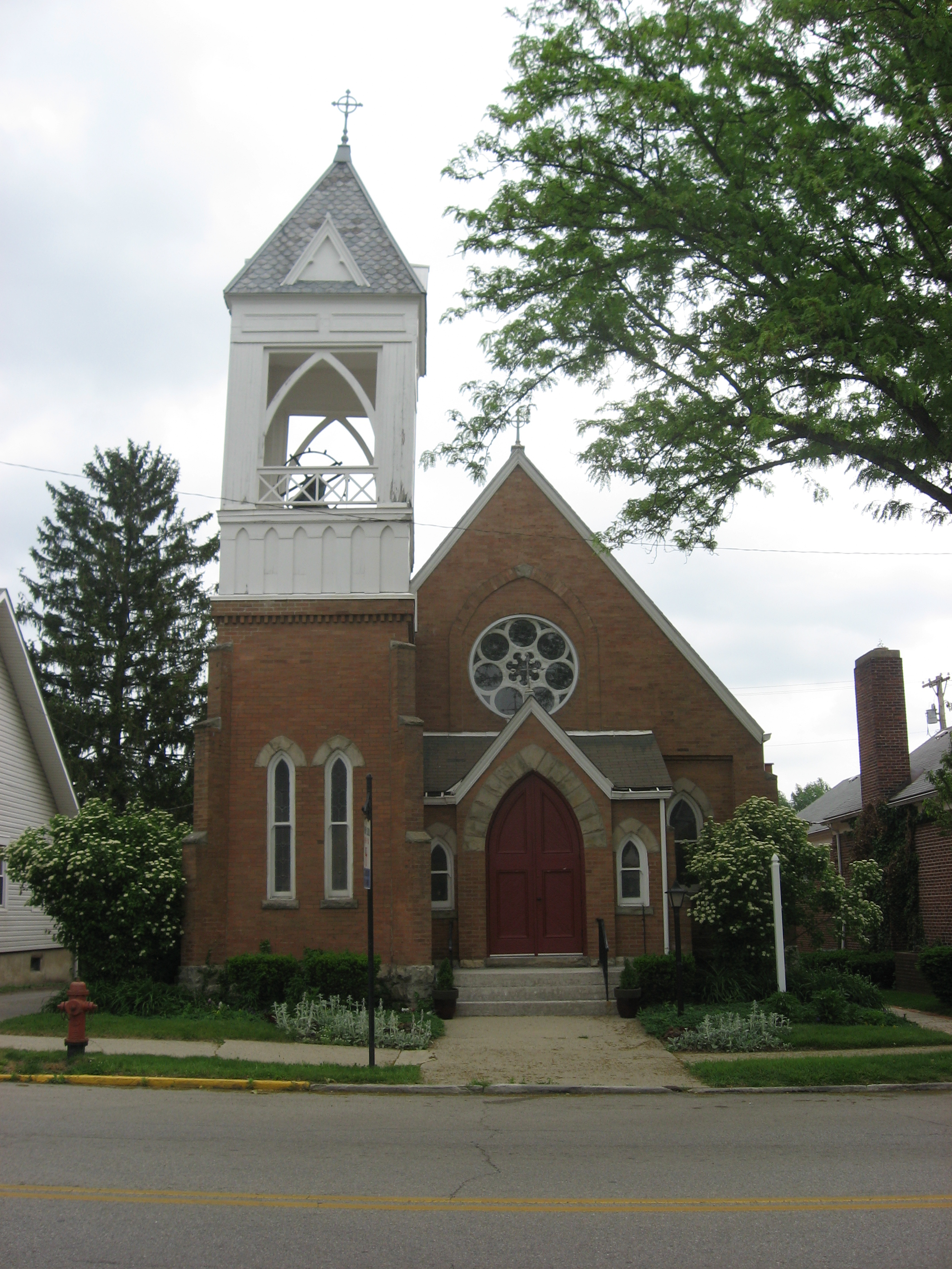 Front of the Church of Our Saviour, located at 56 S. Main Street (State Route 29) in Mechanicsburg, Ohio, United States. Built in 1893, it is listed on the National Register of Historic Places.